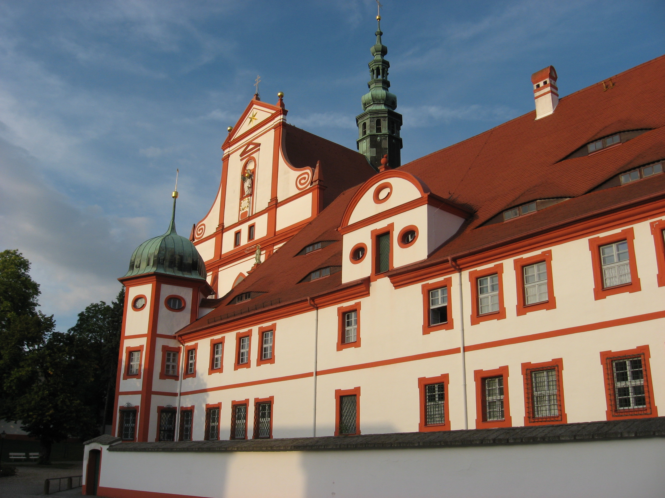 St. Marienstern monastery in Pančicy-Kukow/Panschwitz-Kuckau Hornjoserbsce: klóštr Marijina Hwězda w Pančicach-Kukowje/Panschwitz-Kuckau